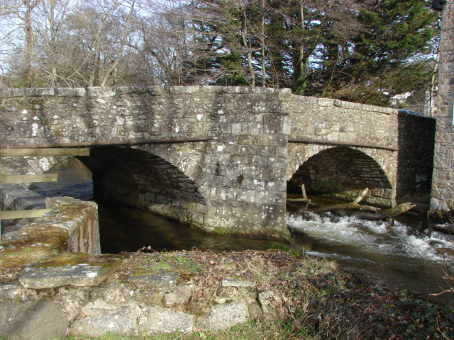 Bovey Tracey Bridge Bridge carrying the B3344 over the River Bovey by the Old Mill.